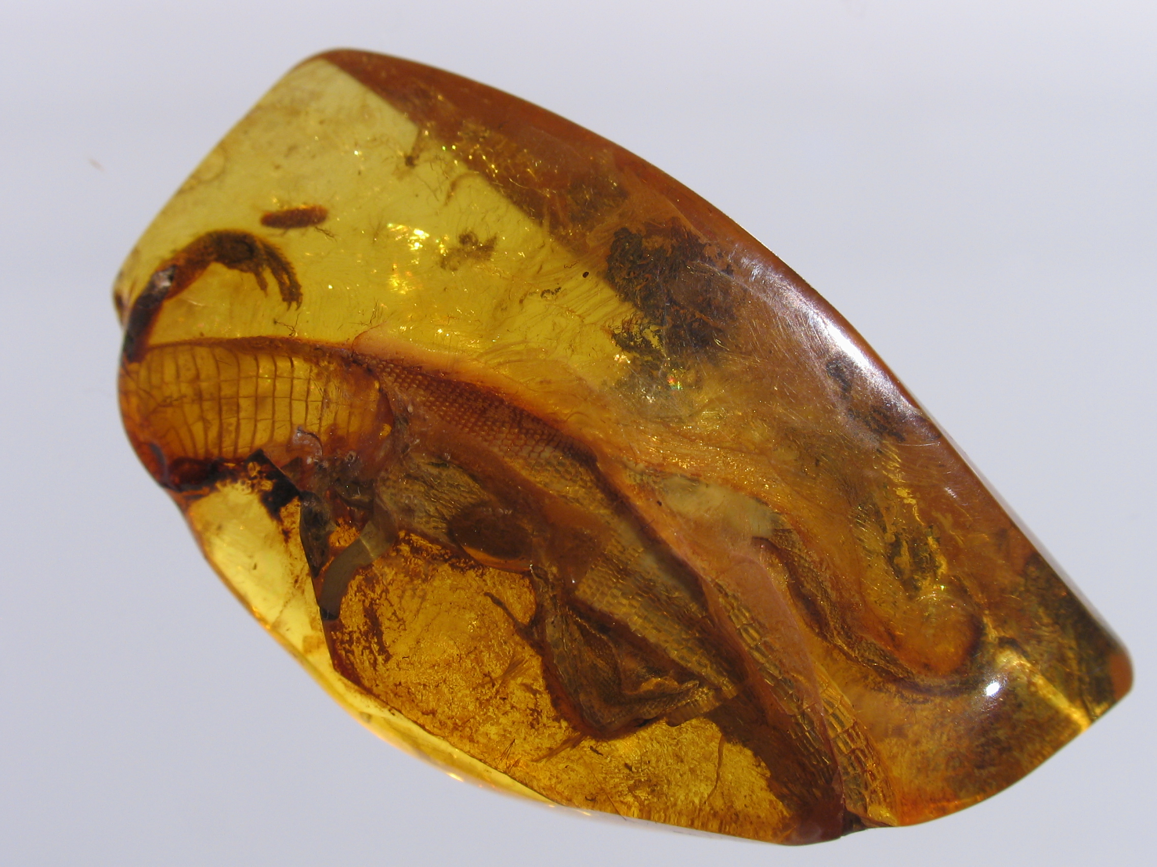 Inclusion Lizard Reptilia Lacertidae. Kaliningrad Amber Museum